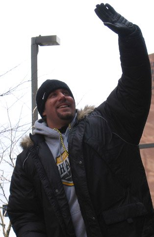 Pittsburgh Steelers' quarterback Ben Roethlisberger, 2006 Pittsburgh Steelers Super Bowl Parade (cropped from original image)